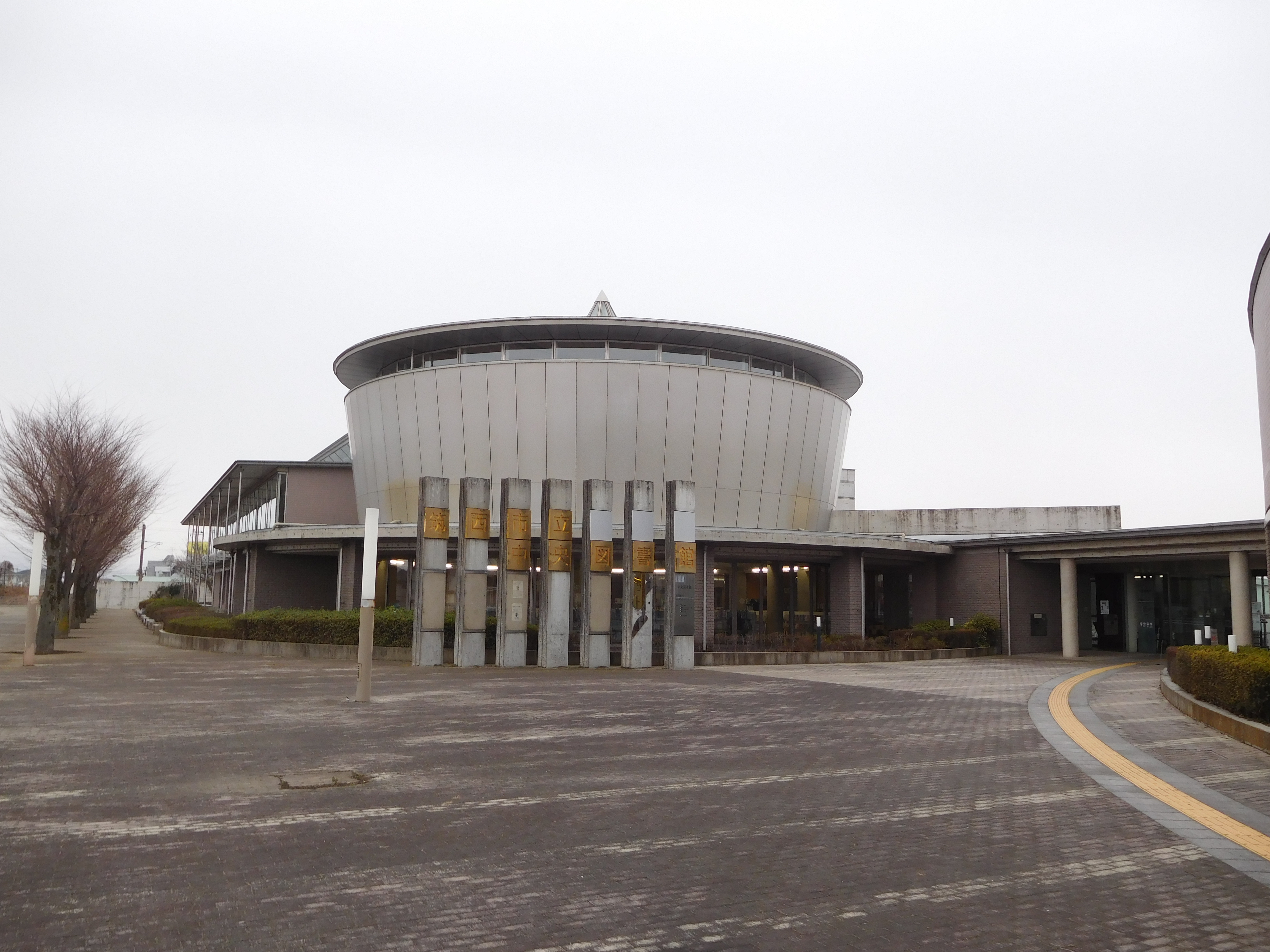 This is Chikusei Public Library Central Branch in Chikusei, Ibaraki, Japan.